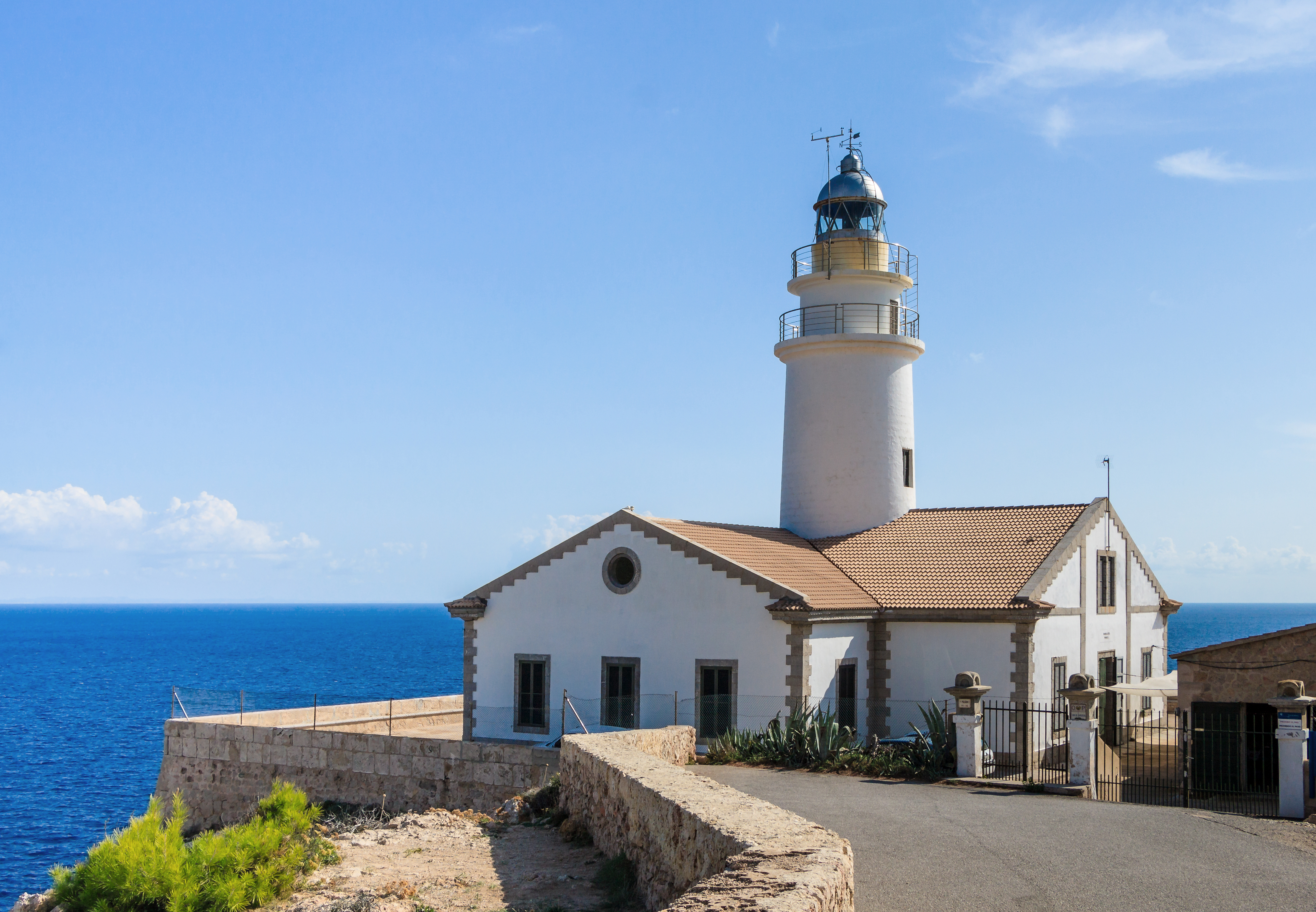 Lighthouse at Punta de Capdepera, Majorca, Spain, view from west.